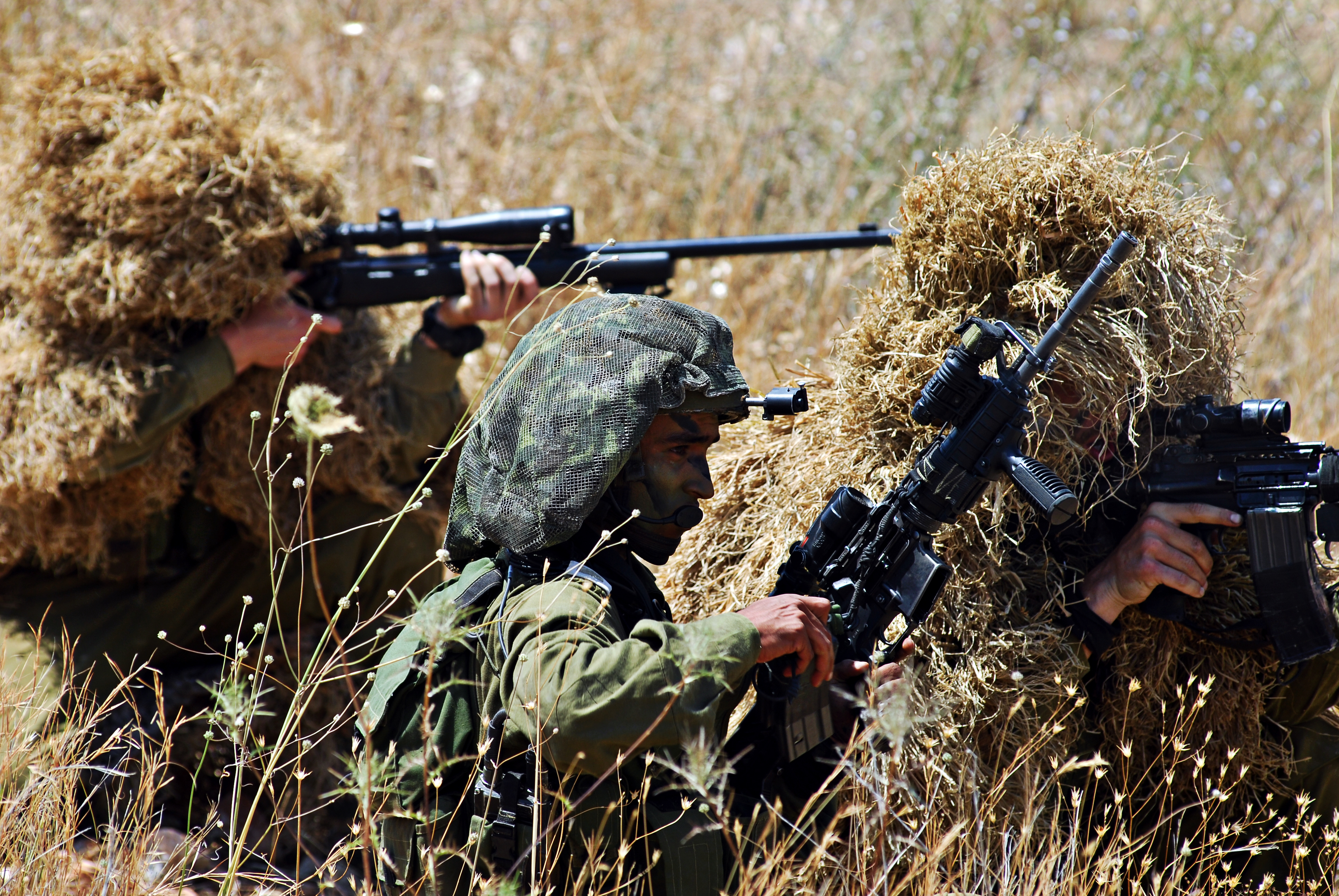 May 26, 2009. The soldiers of the Combat Engineering Corps display their new logistic and operational abilities at the Mitkan Adam military base. The display featured the Corps’ camouflage suits. Photo by St. Sgt. Michael Shvedron, IDF Spokesperson Unit. Featured as "Photo of the Day" on October 25, 2011. The Israel Defense Forces Facebook page The Israel Defense Forces blog Follow us on Twitter